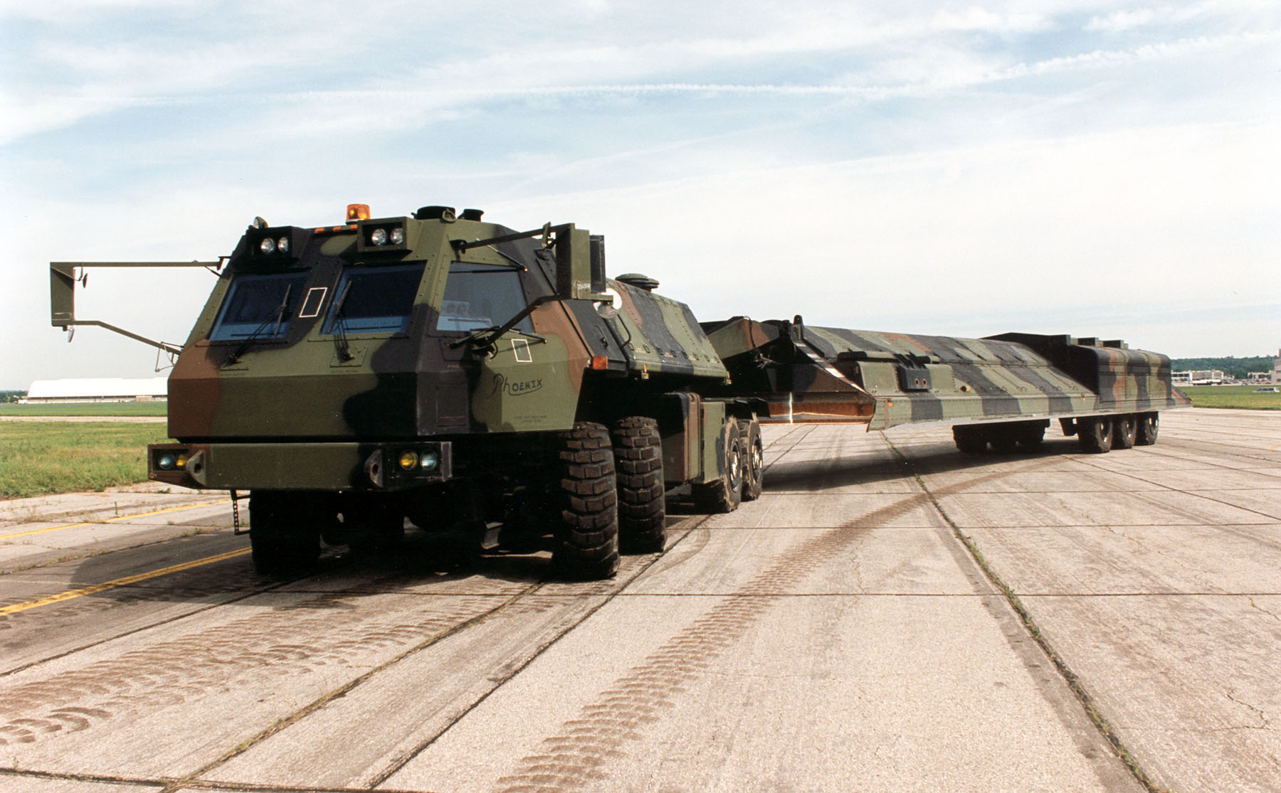 DAYTON, Ohio -- Small ICBM Hard Mobile Launcher at the National Museum of the United States Air Force. (U.S. Air Force photo)